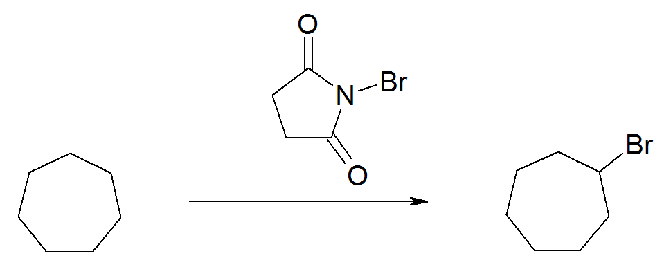 Bromination of cycloheptane by means of N-bromosuccinimide